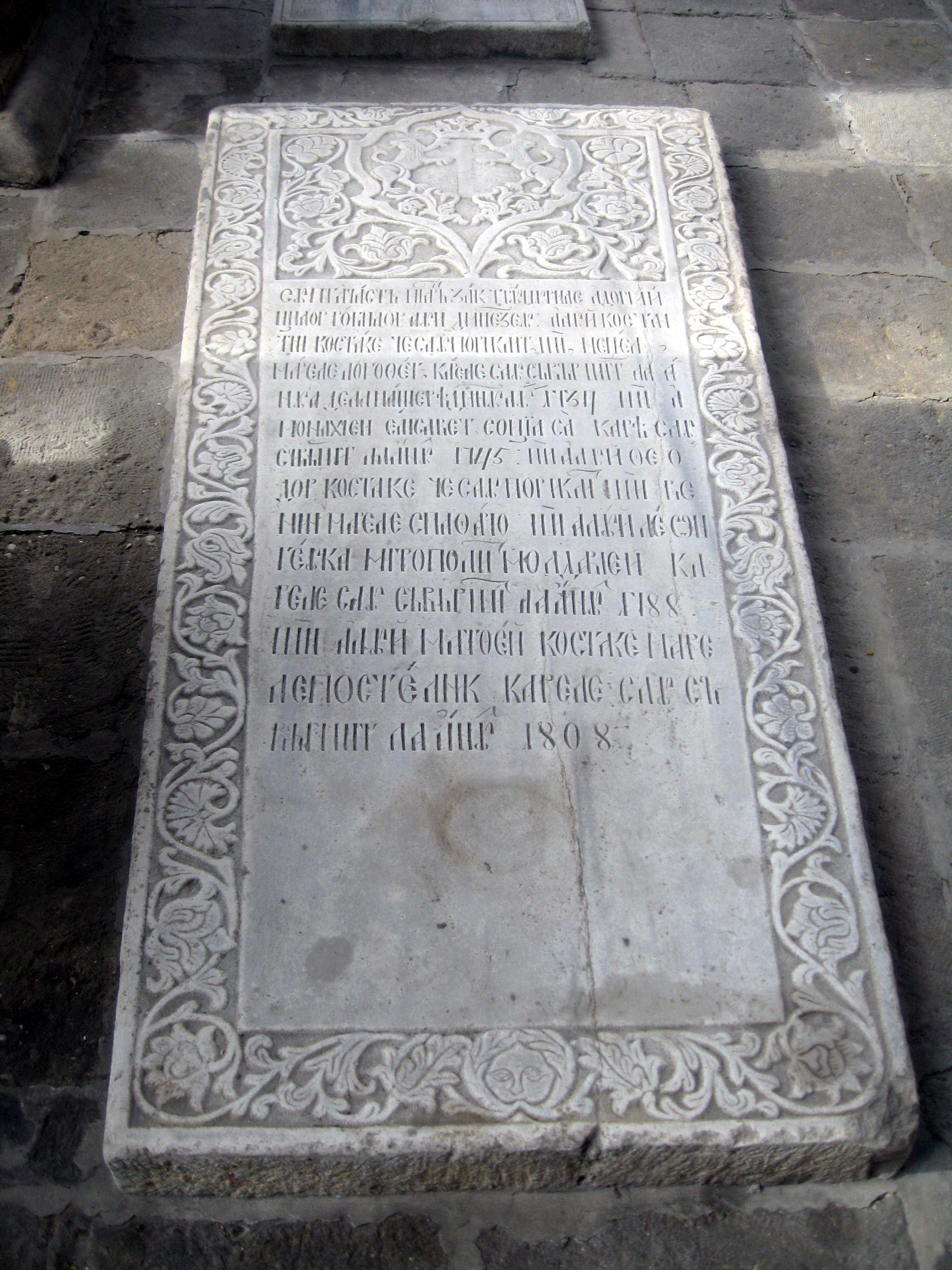 St.George Church in Iași (old Metropolitan Cathedral)